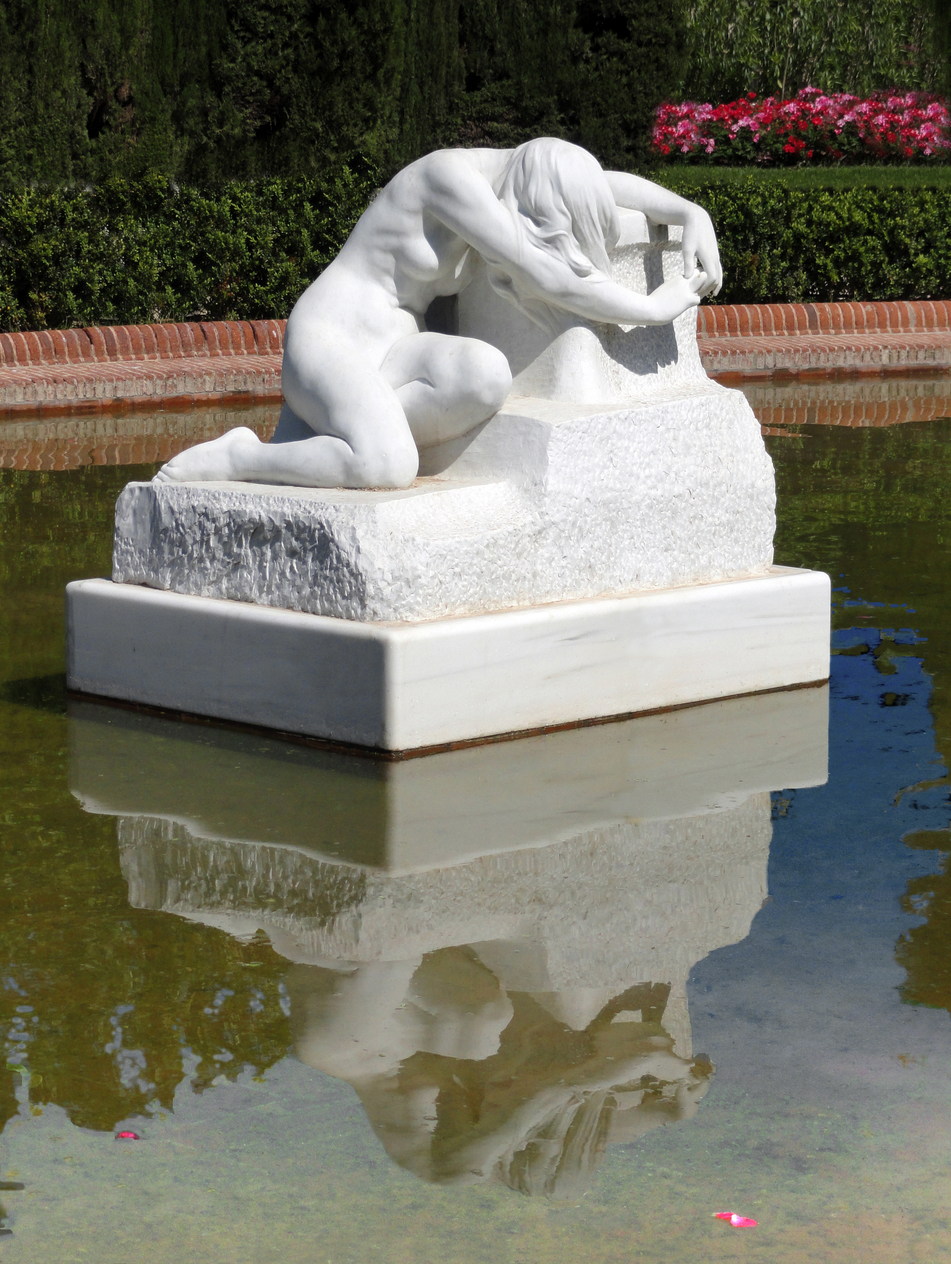 Josep Llimona, 1903, Desconsol, white marble, copy from 1984, parc de la Ciutadella, Barcelona